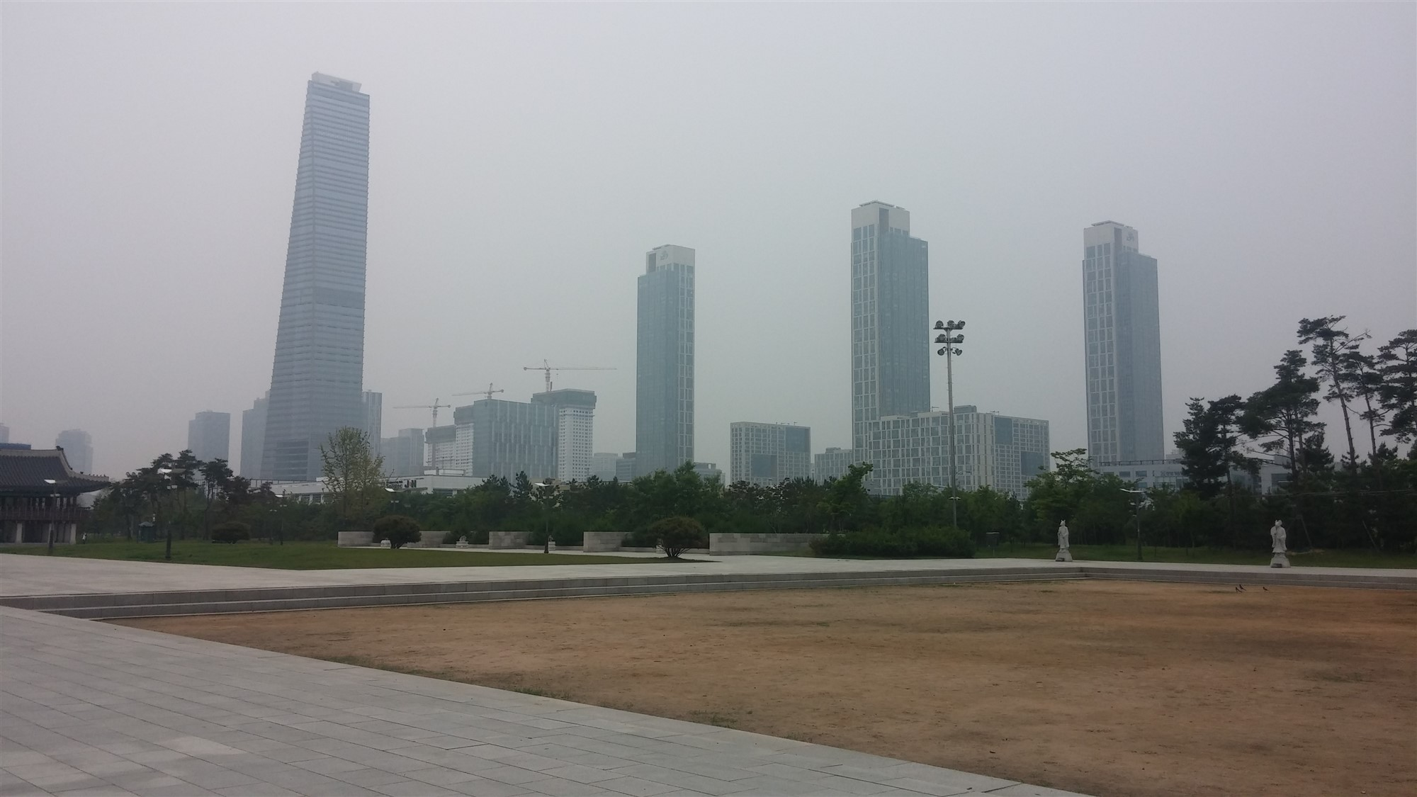 Tall Buildings in Songdo IBD, Incheon, Korea, from Michihol Park